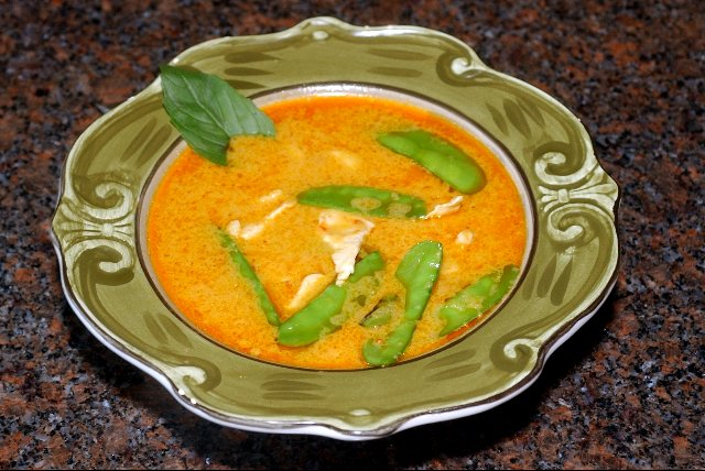 Red Curry